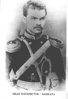 Ivan Pophristov